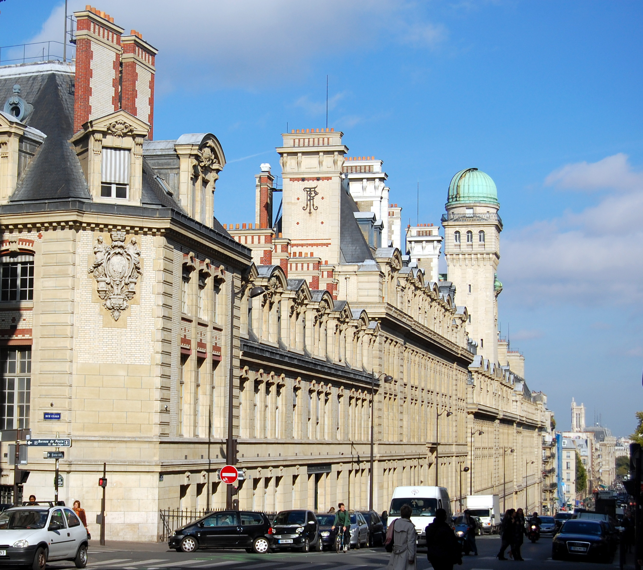 La Sorbonne University, St Jacques street Ve arrondissement, Paris, France